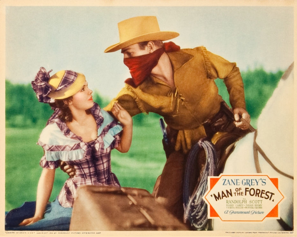 Man of the Forest, directed by Henry Hathaway (1933), with Randolph Scott and Verna Hillie